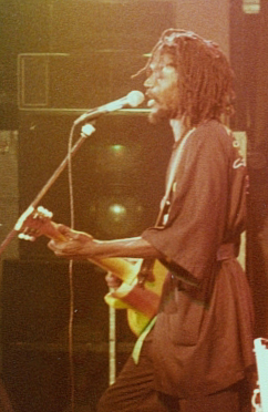 Peter Tosh live in Cardiff Peter Tosh dal vivo a Cardiff